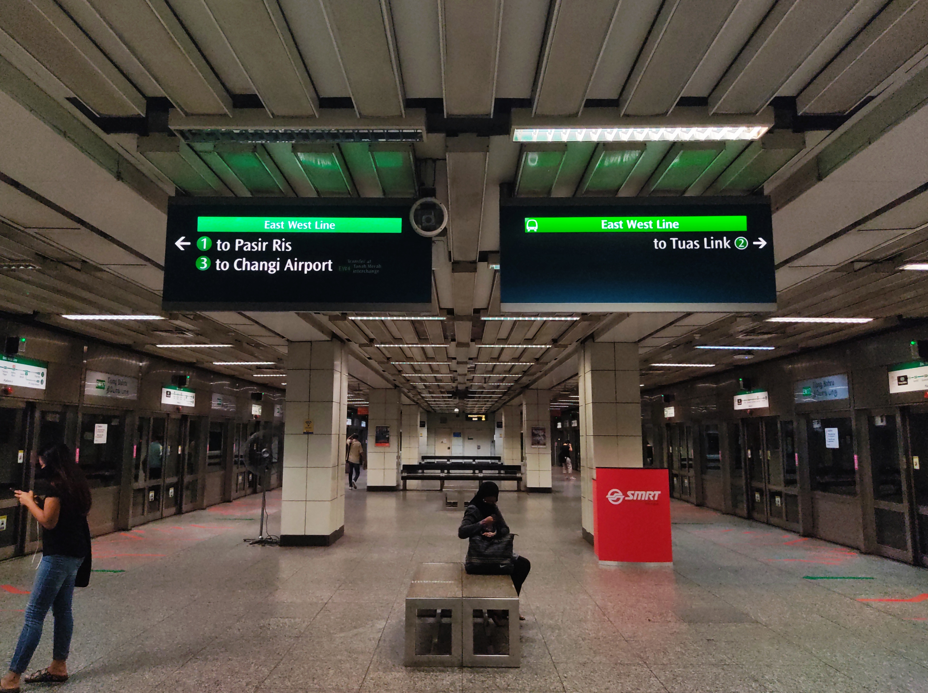 EW17 Tiong Bahru platforms